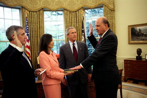 Andrew Card swearing in Nicholas Negroponte with George W. Bush - government image.